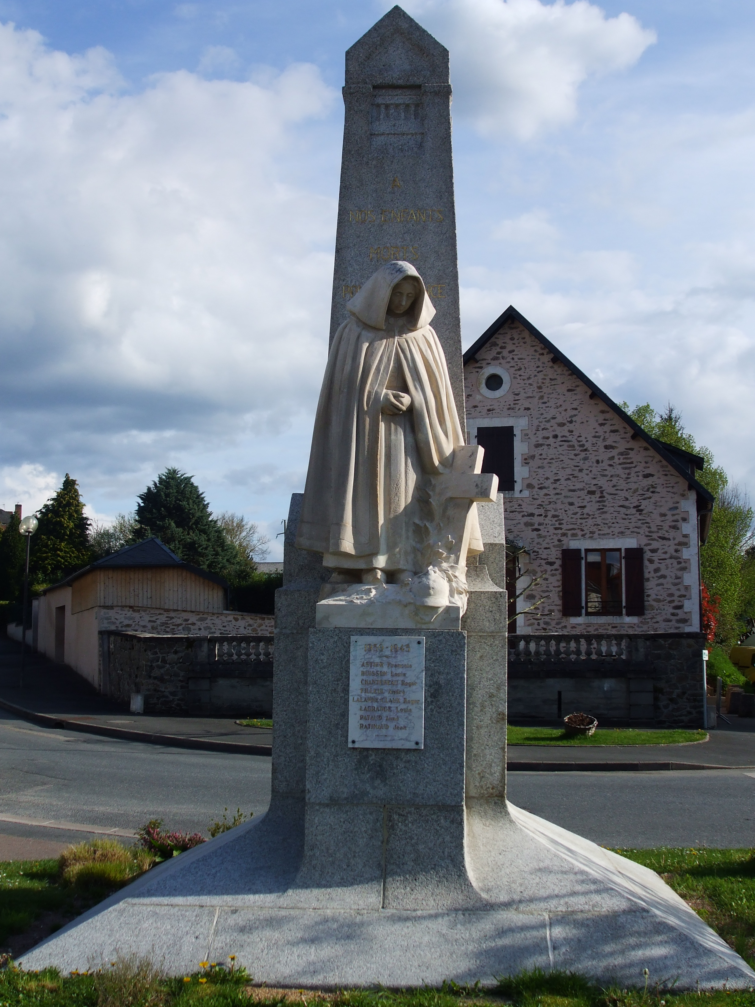 Châlus, Haute-Vienne, France, War memorial